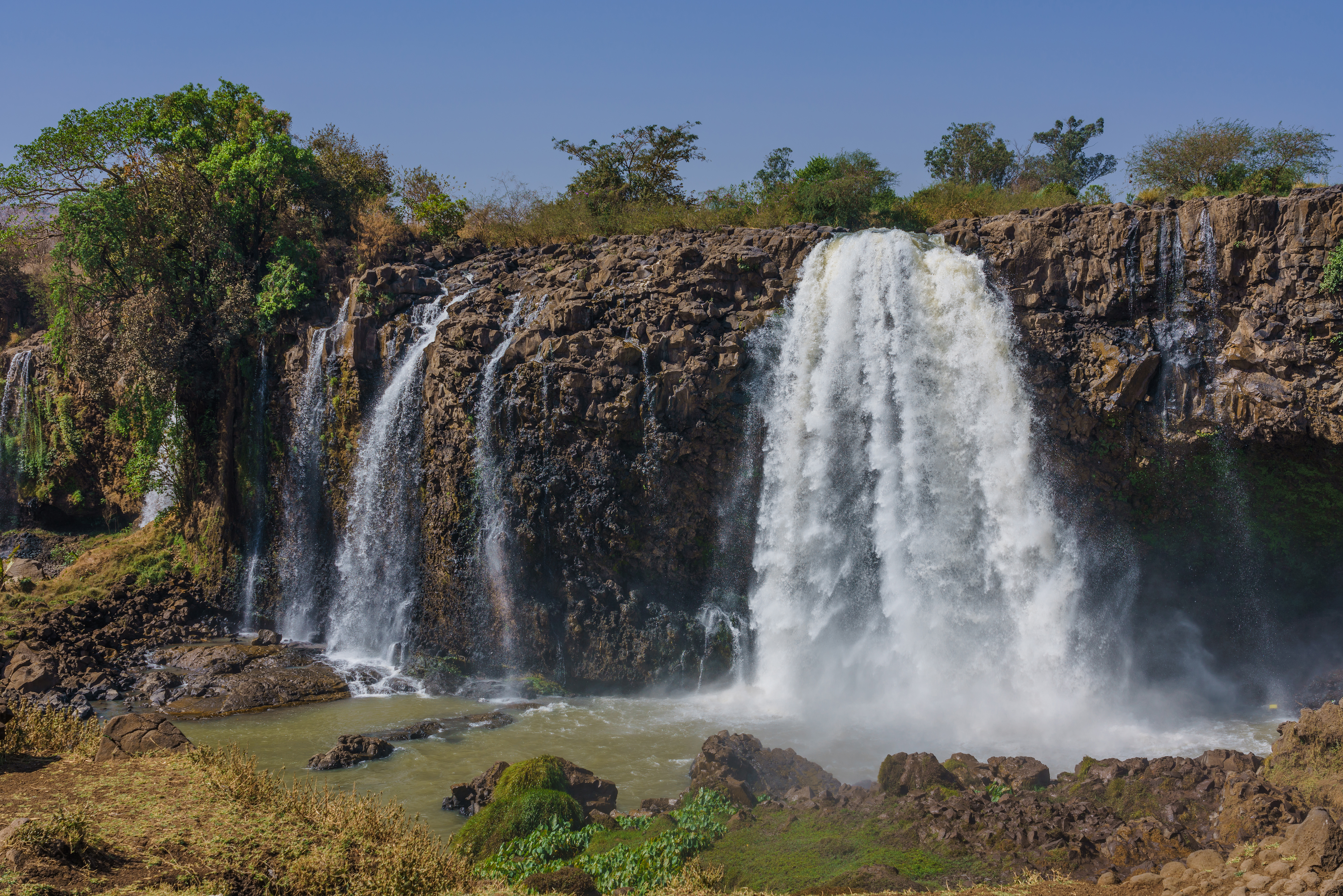 Blue Nile Falls at Tis Issat near Bahir Dar, Ethiopia